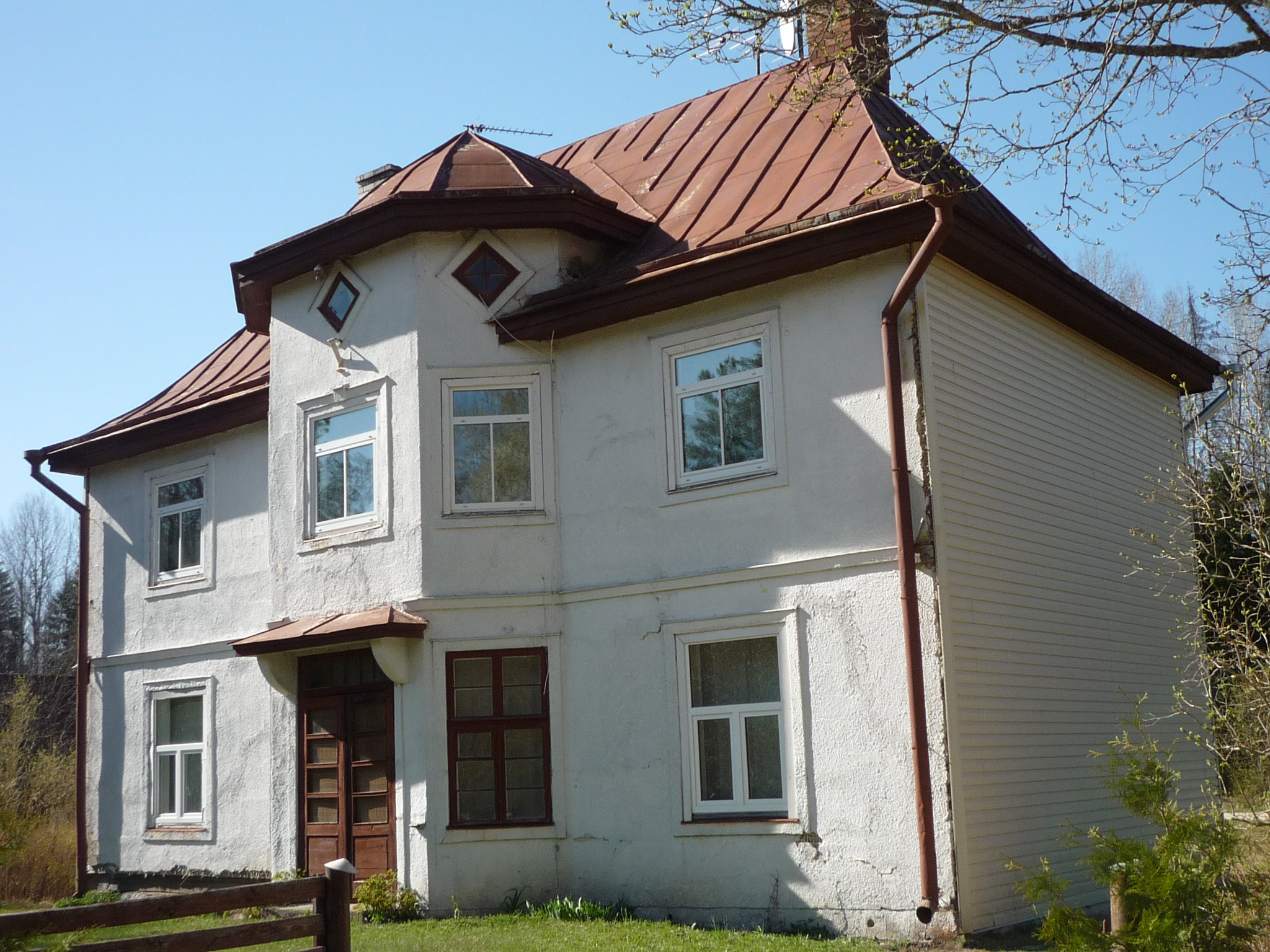 Raikküla (former) railway station. Rapla county, Estonia.